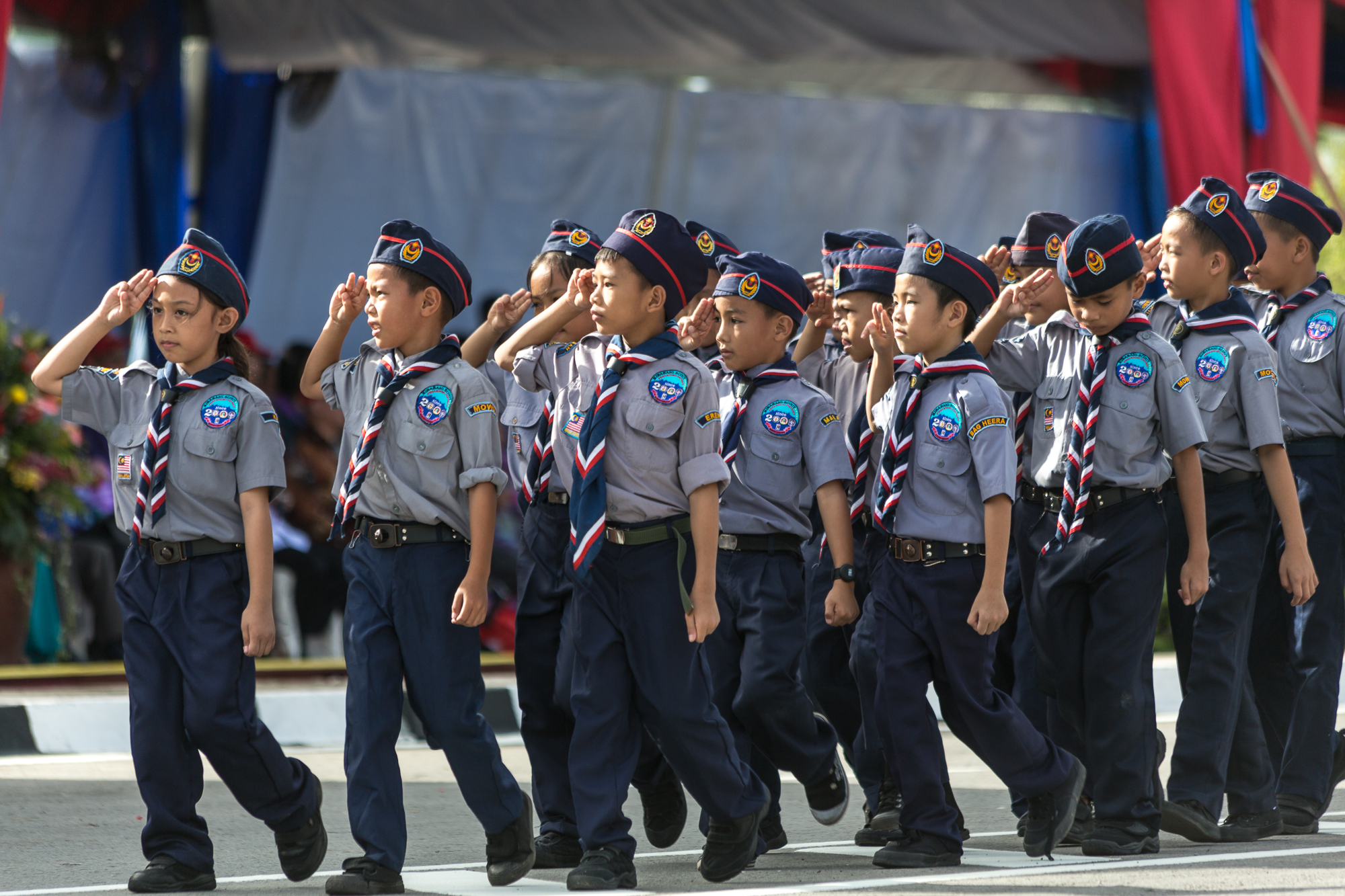 Kota Kinabalu, Sabah, Malaysia: Parade during Celebrations of Hari Merdeka 2013 in Likas on August 31, 2013